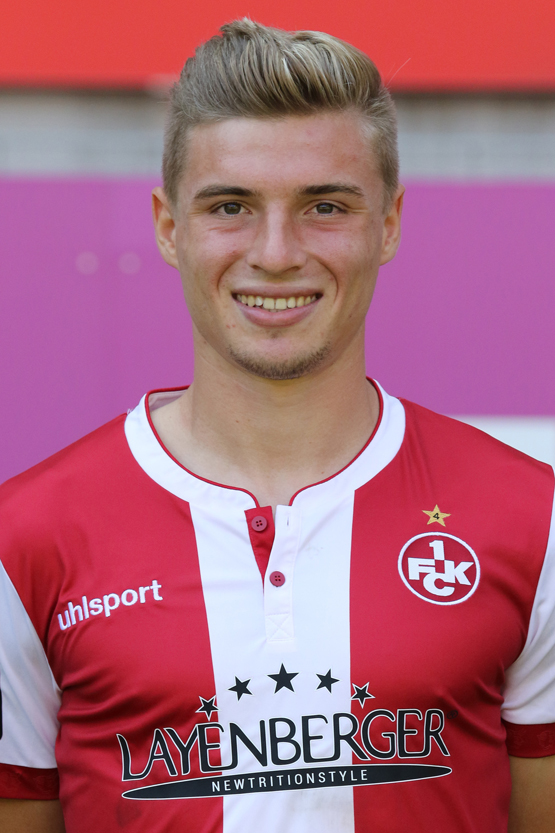 Elias Huth (Nr. 15)